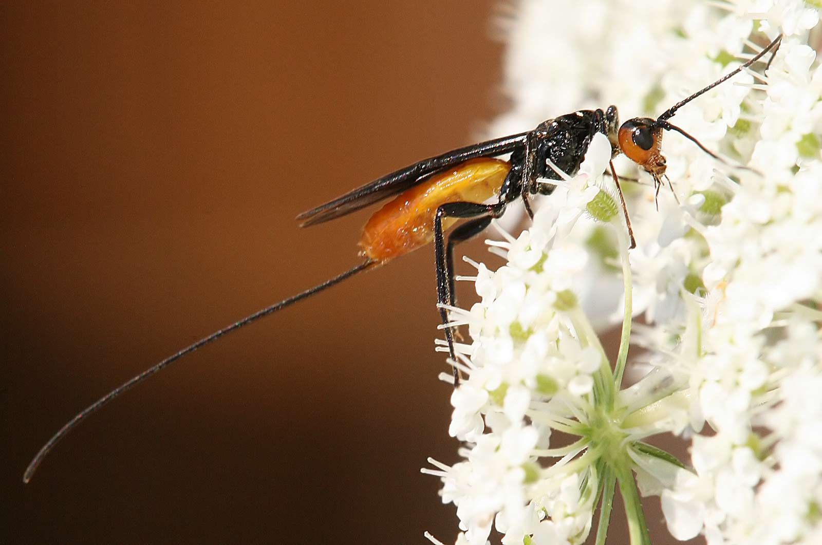 Description: Braconidae is a family of parasitoid wasps and one of the richest family of insects. From the approximate 12,000 described species (the braconids), it is extrapolated that between 40,000 and 50,000 species exist worldwide.As shown it is a species of the genus Atanycolus (Braconinae).Info by